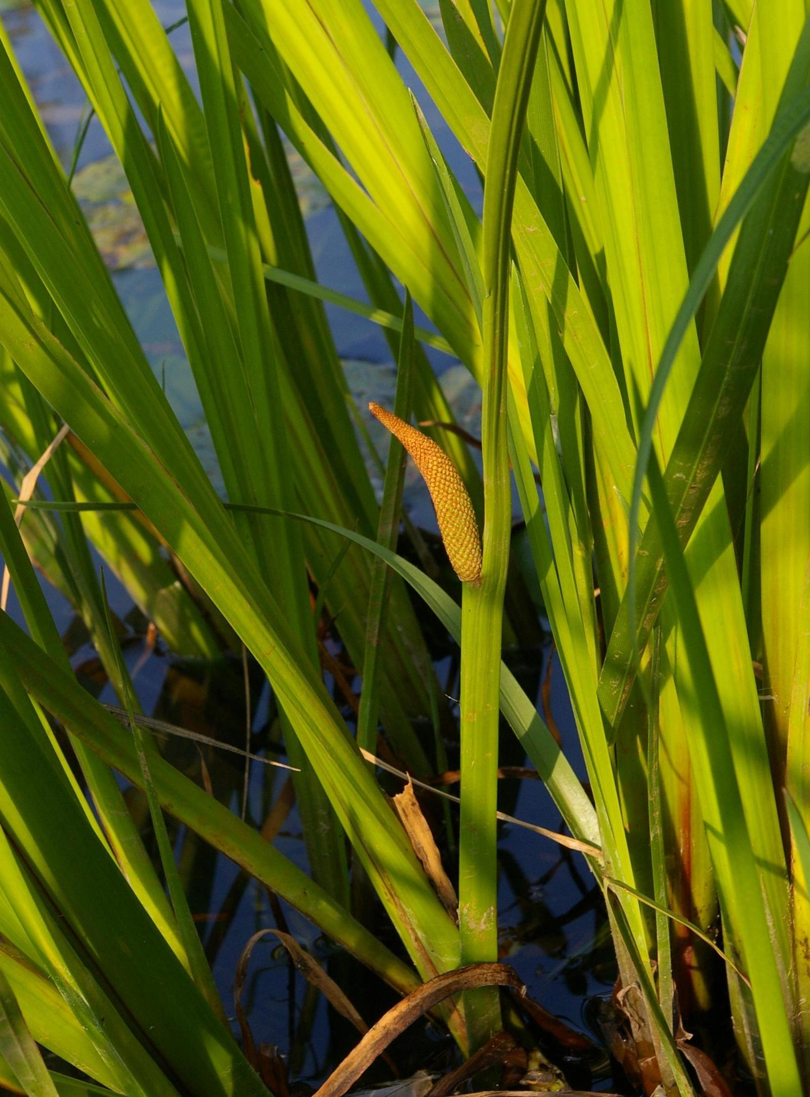 Inflorescence of Acorus calamus. North-eastern Lower Saxony, Germany.